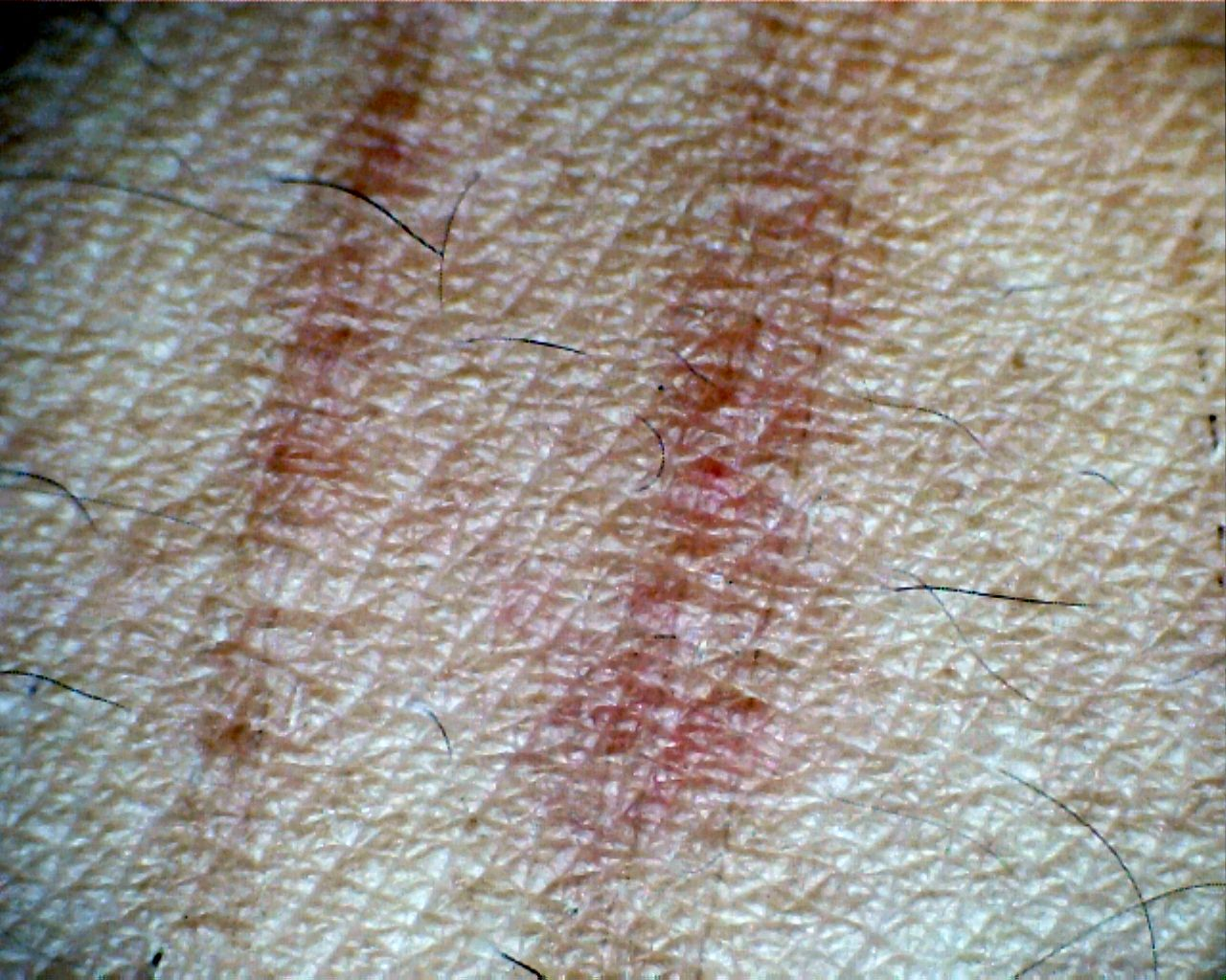 Skin scars.